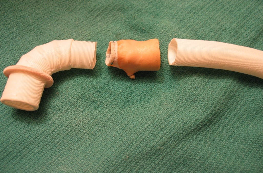 An aortic valve bypass implant ready for assembly on the back table